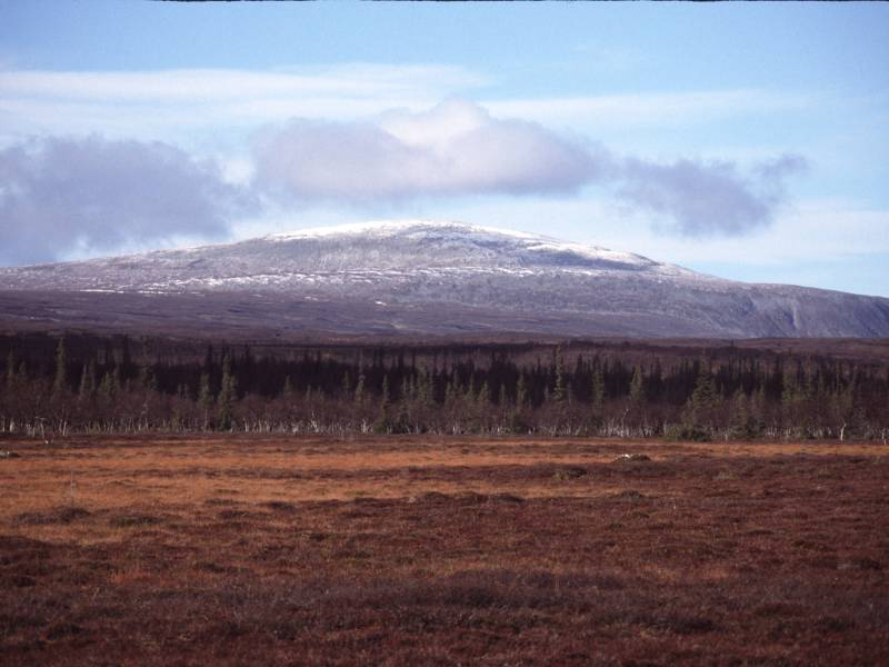 The mountains of Oviksfjällen in Jämtland, Sweden, seen from the south